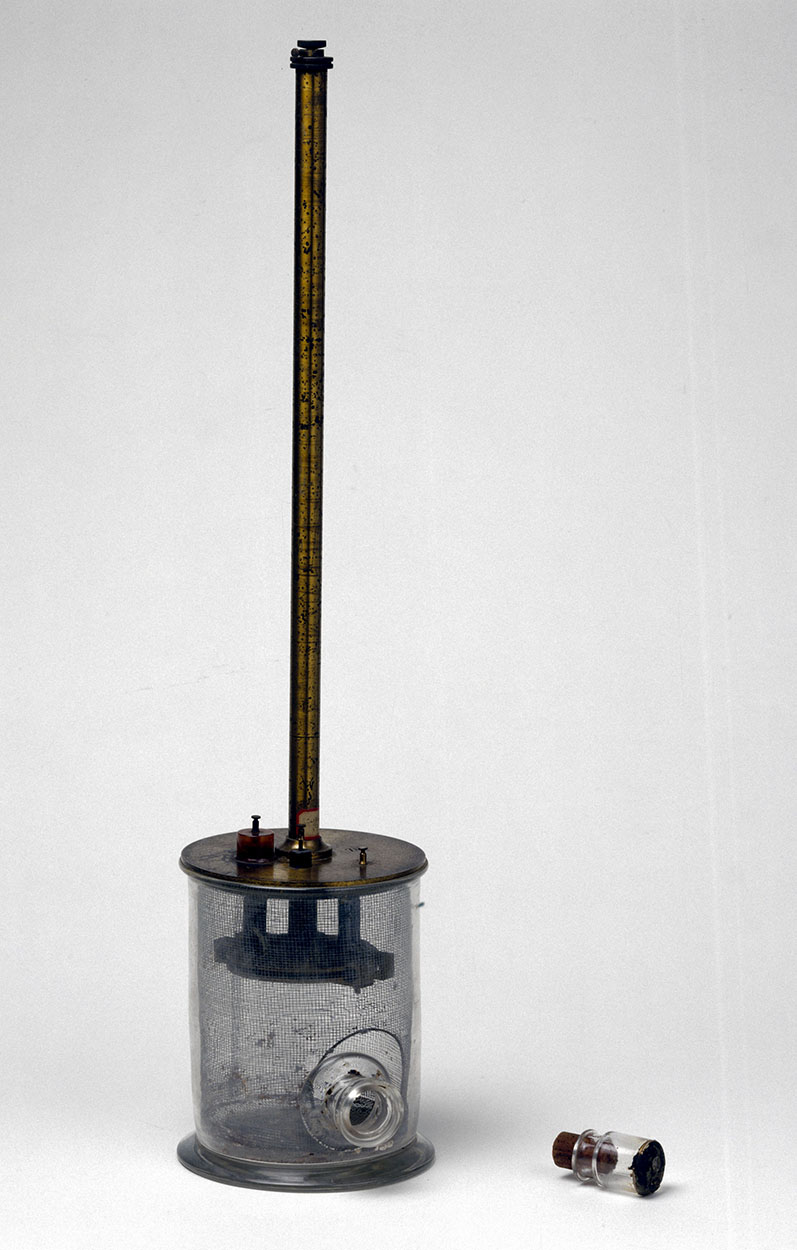 Pierre Curie (1859-1906) married Marie Curie (1867-1934) in 1895, when he was already an internationally recognised physicist. With his brother Jacques, in the 1880s, he discovered piezo-electricity (the fact that crystals under pressure produce electric currents) which they used to build a new type of electrometer and measure small electrical charges. An electrometer is an instrument for measuring electrical potential without drawing any current from the circuit under test.